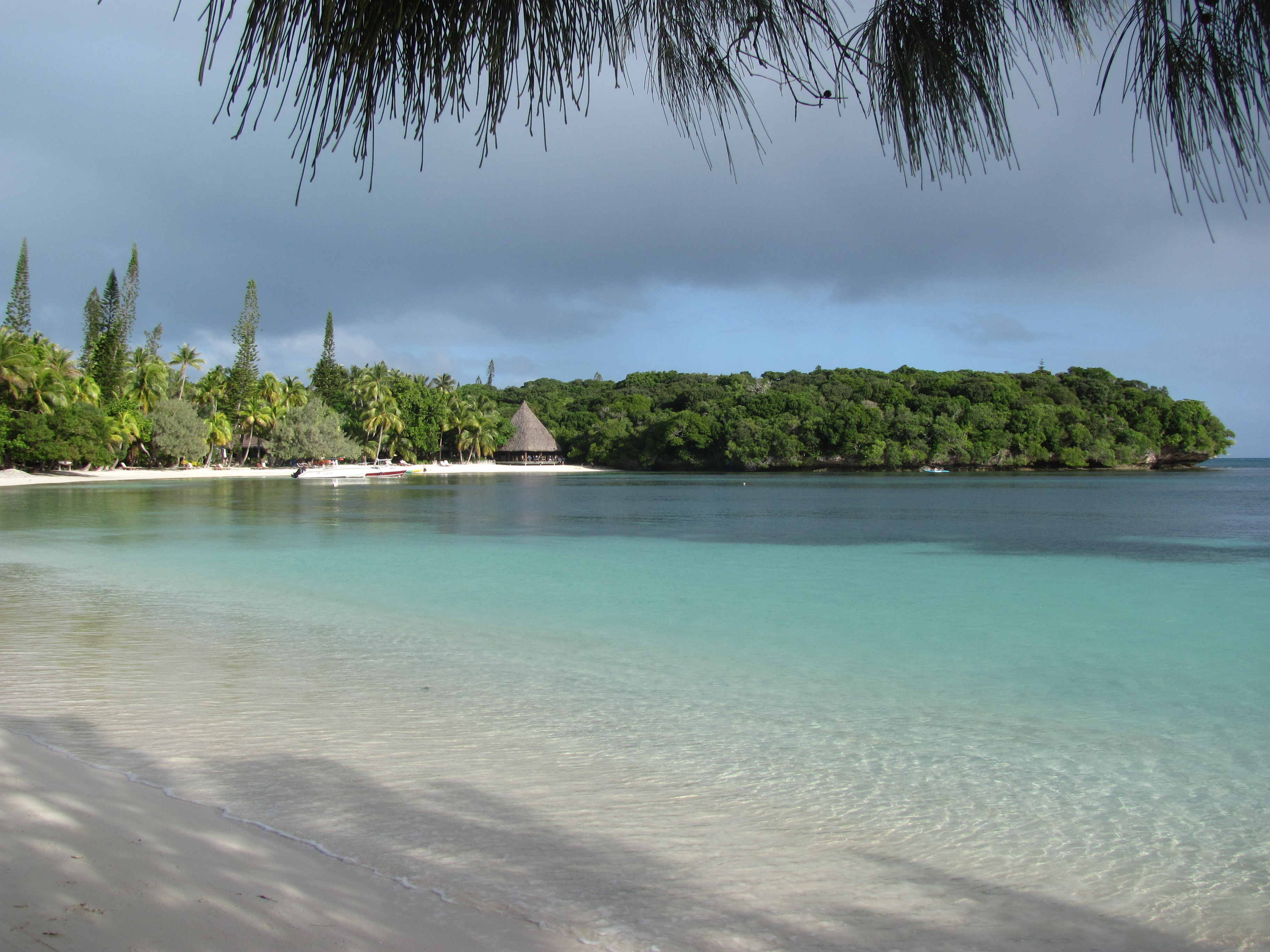 Baie de Kanumera, Kuto. L'Île-des-Pins, New Caledonia